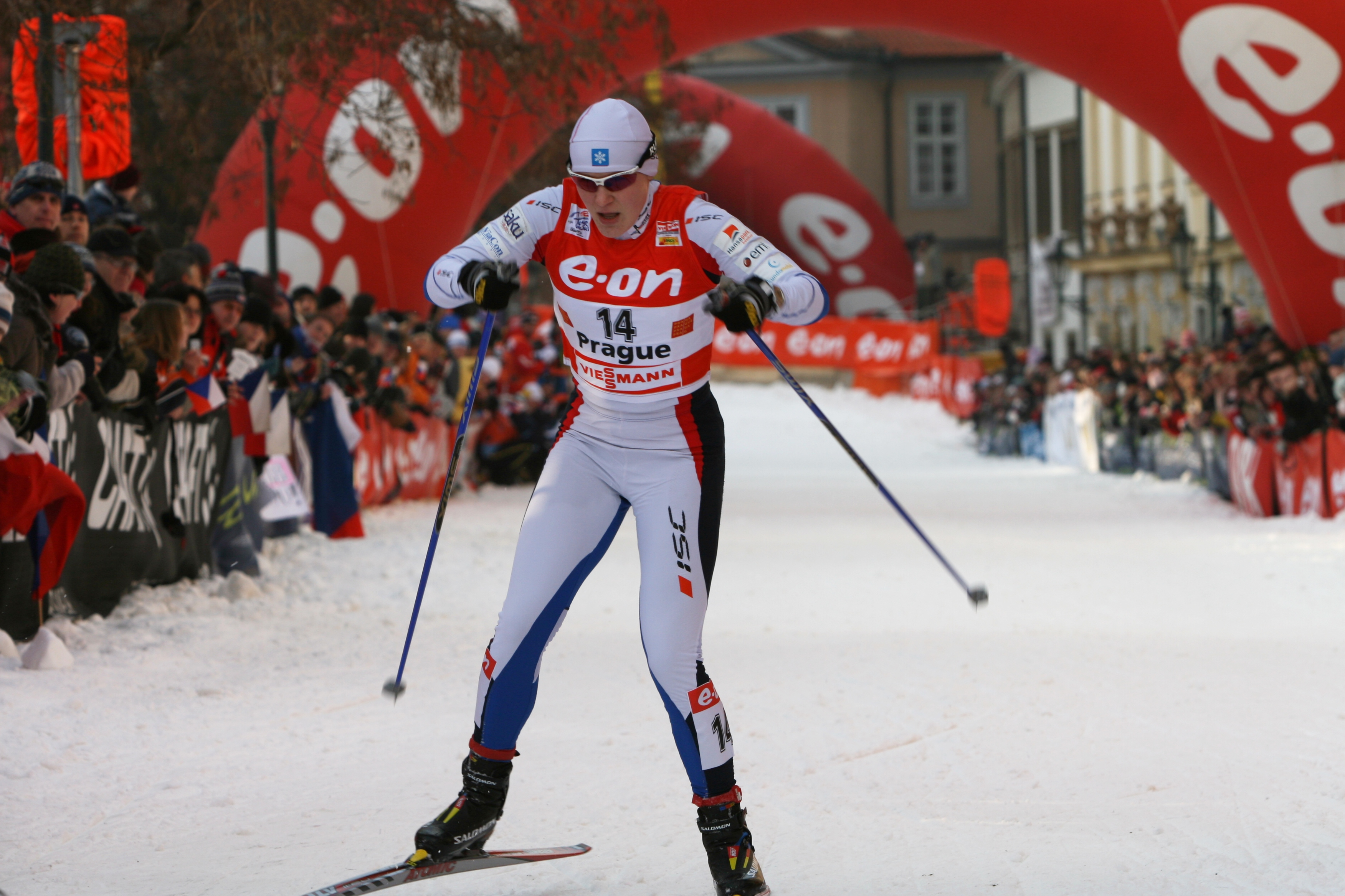 Kaili Sirge at Tour de Ski in Prague